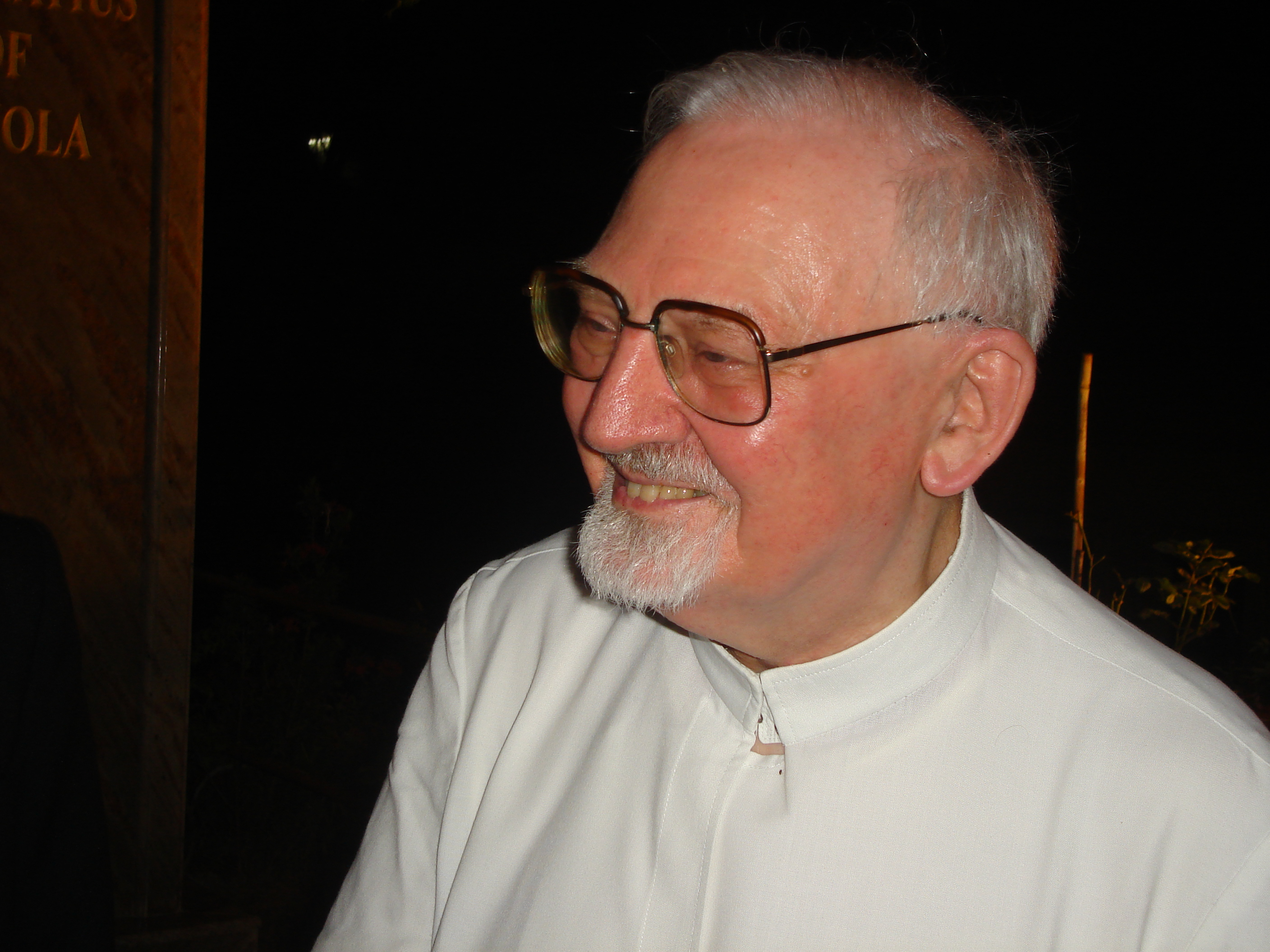 Peter Hans Kolvenbach, the Superior-General of the Catholic religious Order of the Jesuits, in Goa, western India, November 9, 2006. Photo Frederick Noronha, GFDF.